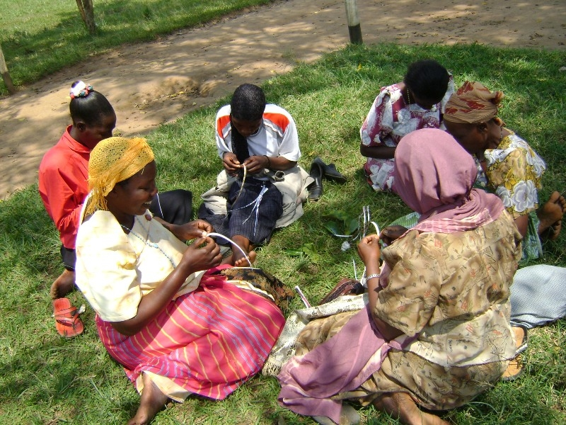 These women are part of the Hope Again Women artisan group in Rakai Uganda.